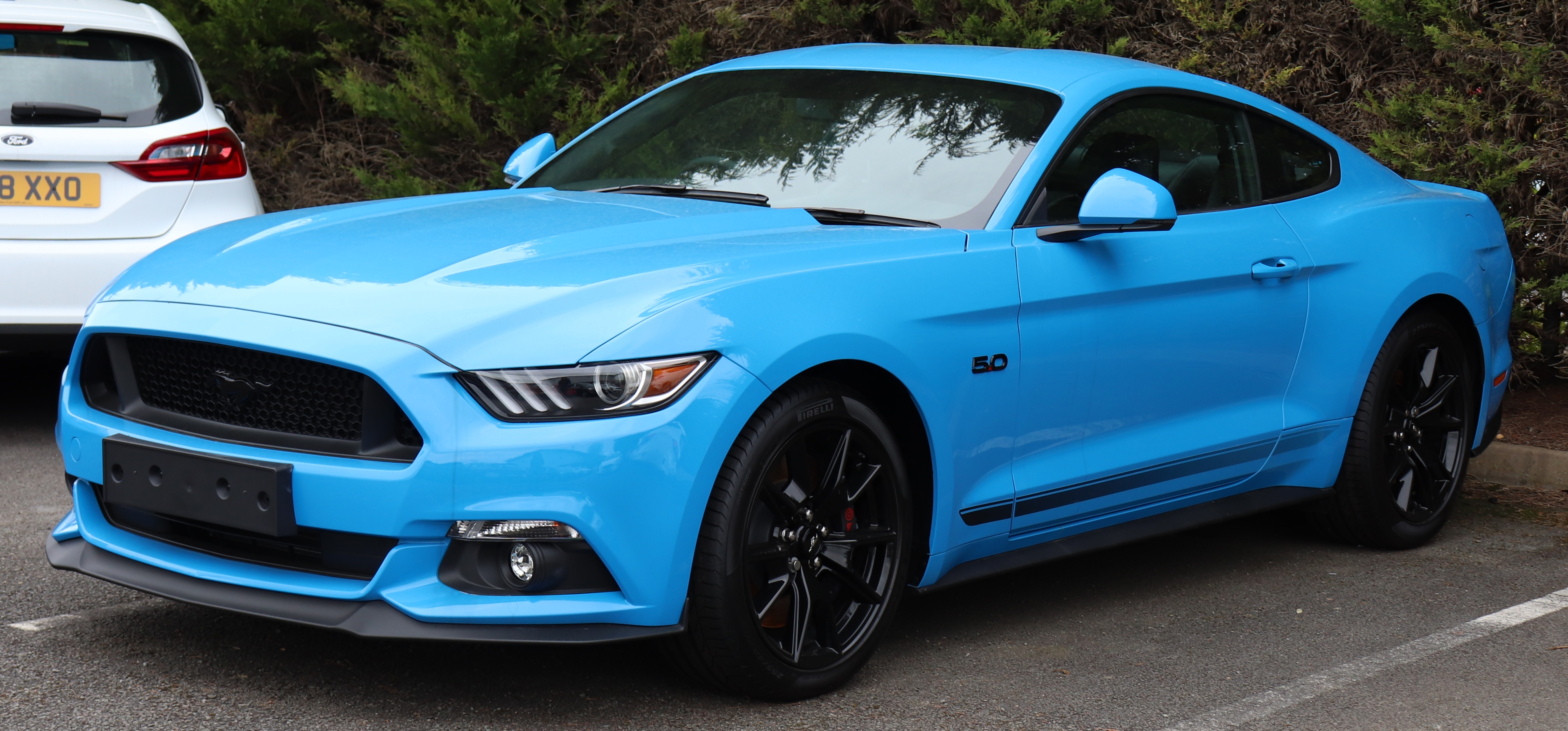 2018 Ford Mustang 5.0 Taken in Leamington Spa